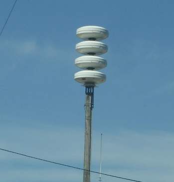 A Federal Signal Modulator warning siren near my vacation house in Bay Head, New Jersey.